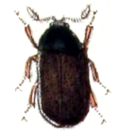 Globicornis emarginata, from Calwer's Käferbuch, Table 16, Picture 8. Taxonomy was updated to 2008, using mostly the sites Fauna Europaea and BioLib. Please contact Sarefo if the determination is wrong!